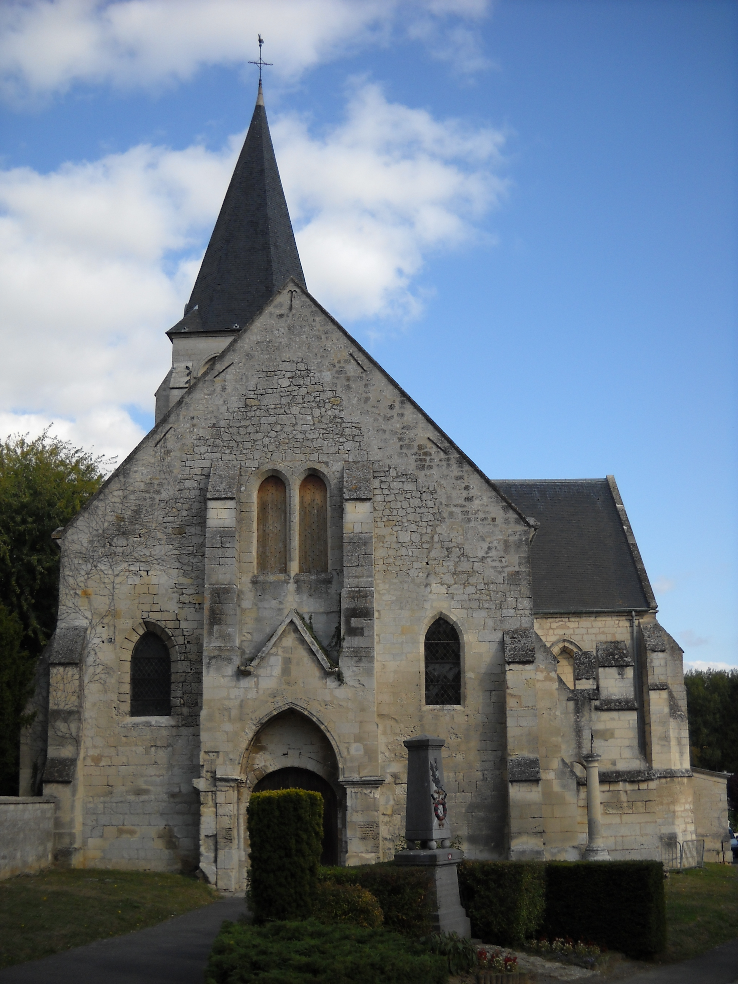 The church of Neuilly-sous-Clermont, Oise, France.